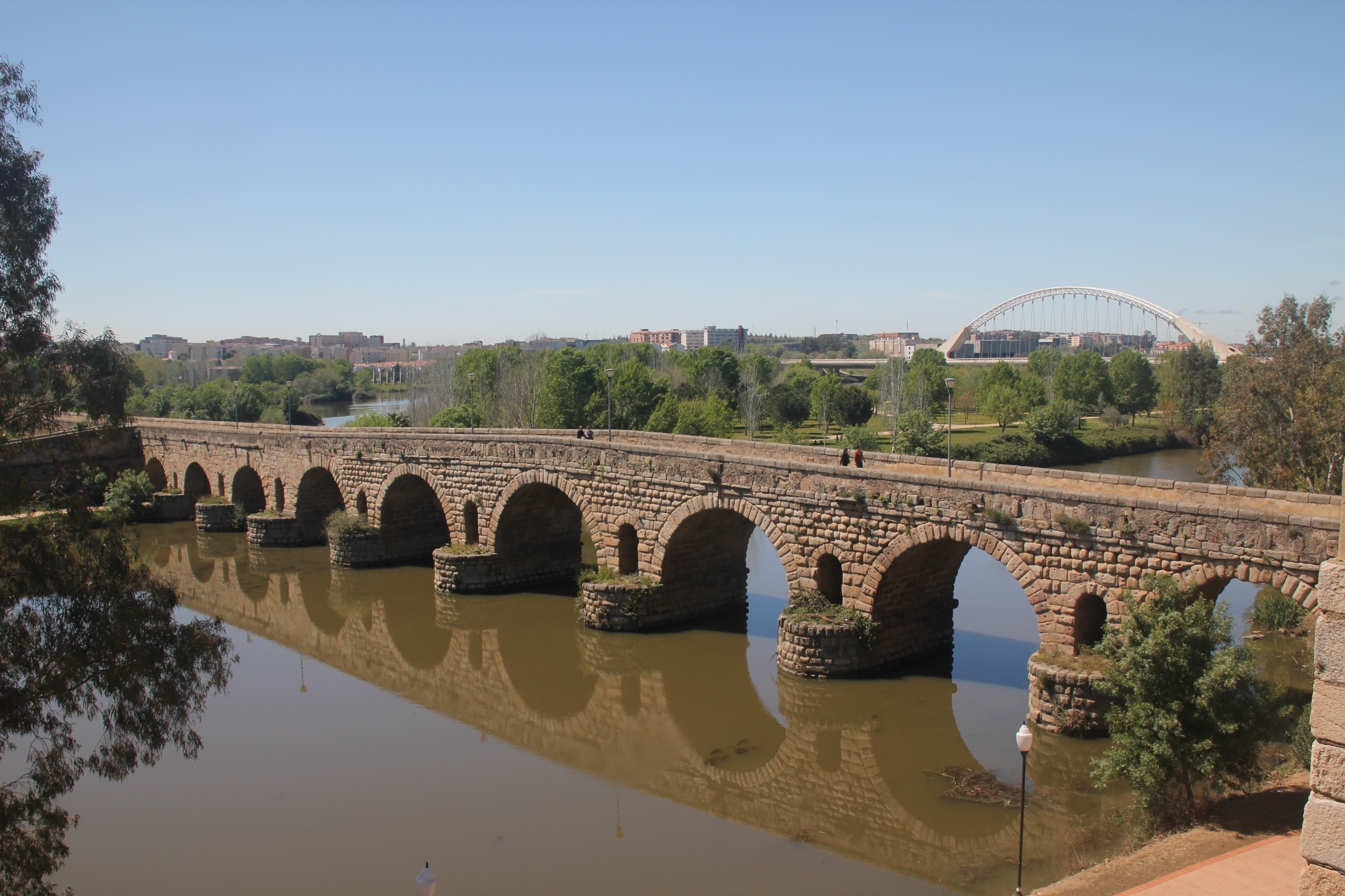 Roman Bridge in Mérida